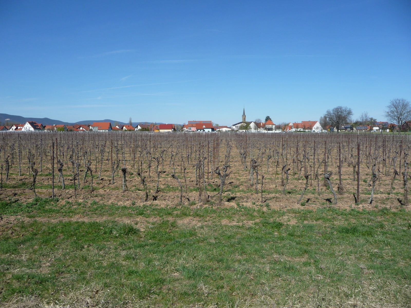 Großfischlingen in Rhineland-Palatinate, Germany